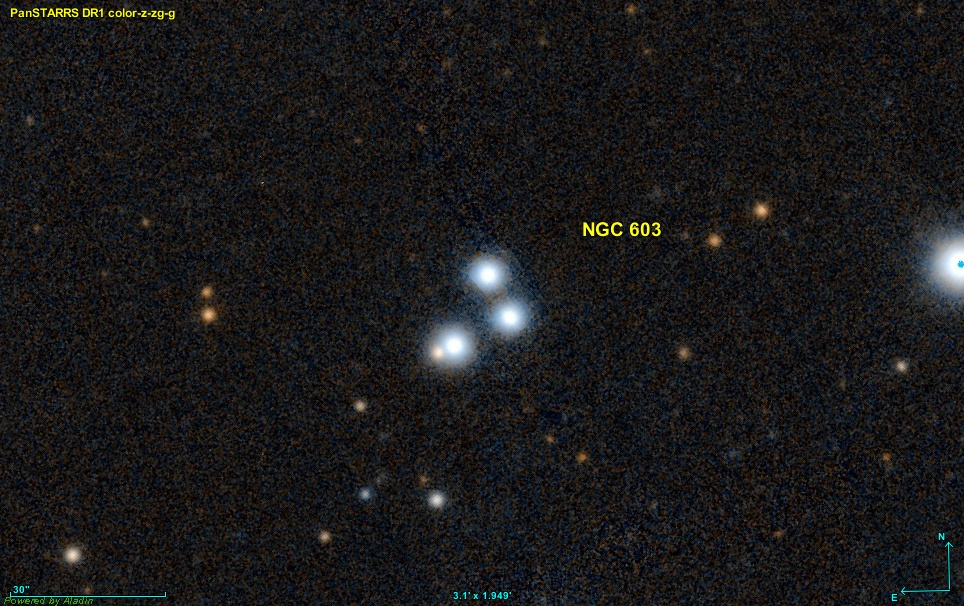 Image created using the Aladin Sky Atlas software from the Strasbourg Astronomical Data Center and Pan-STARRS ([ Panoramic Survey Telescope And Rapid Response System) public data.